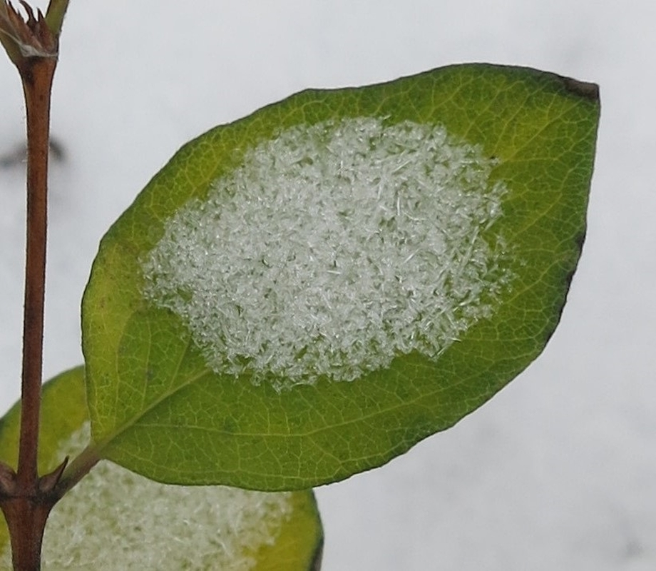 Lonicera xylosteum leaf at the end of November (Hyvinkää, Finland)